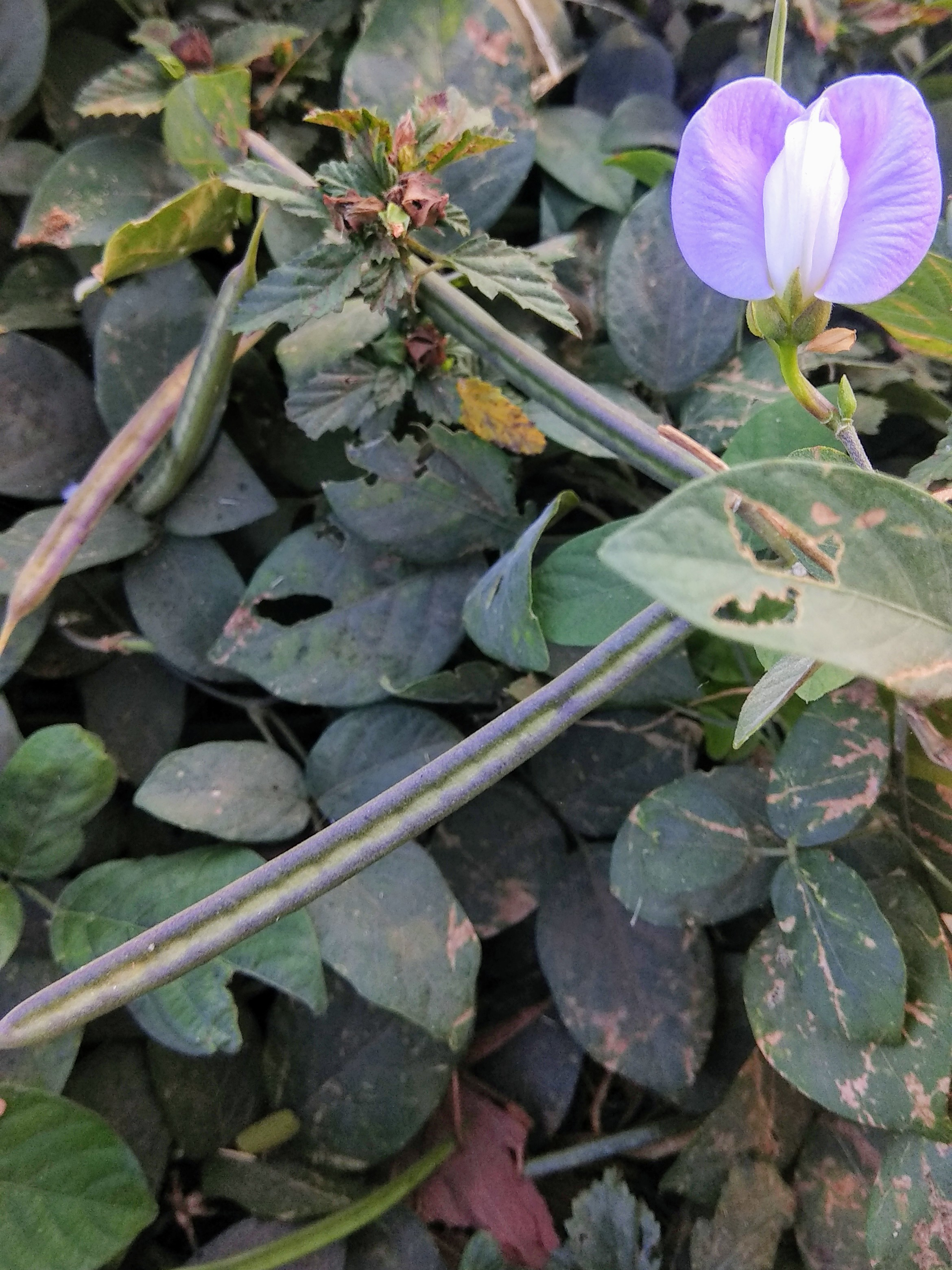 Centrosema Virginianum